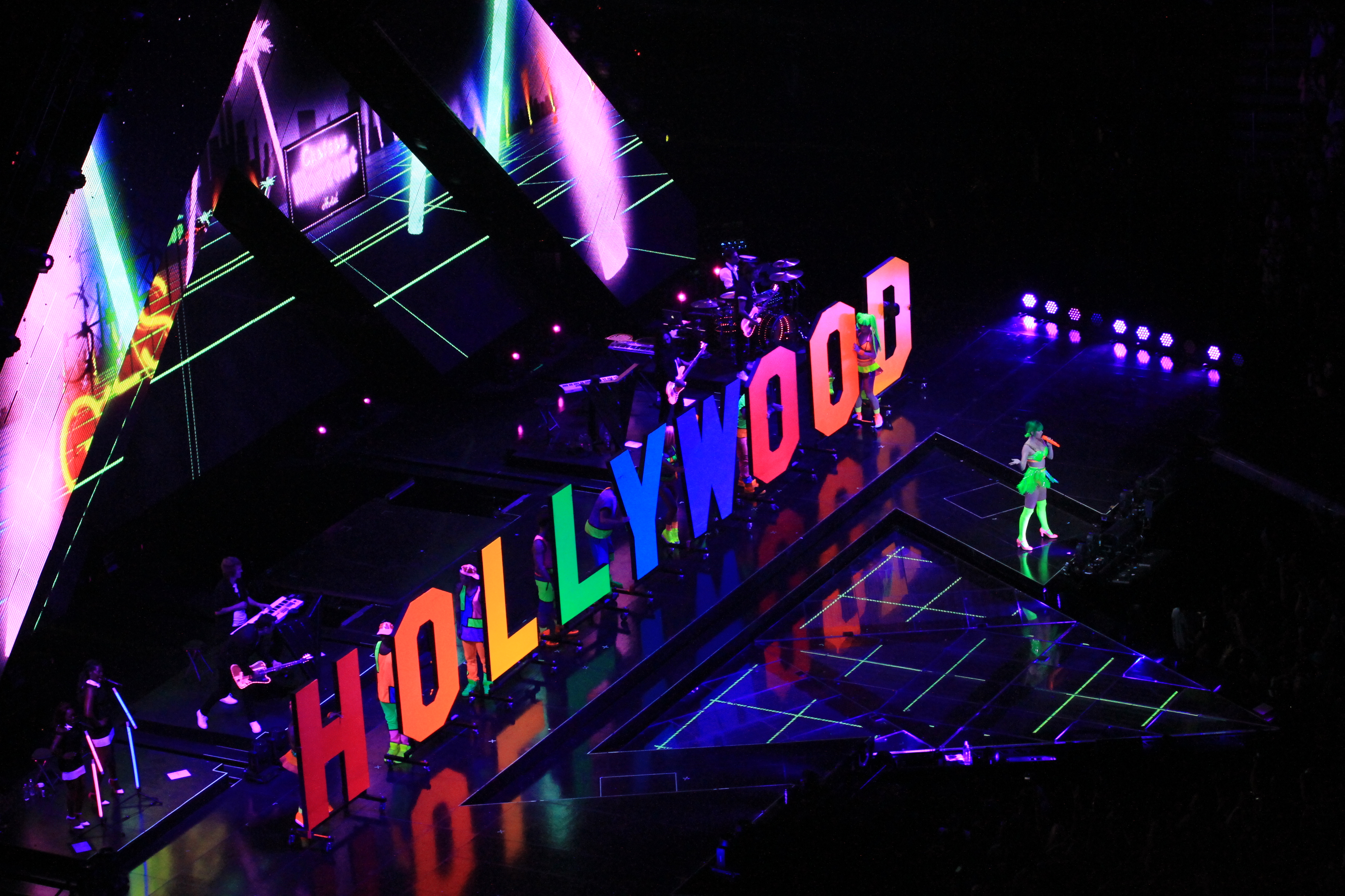 Katy Perry performing "Teenage Dream" at Prudential Center in Newark in July 12, 2014.